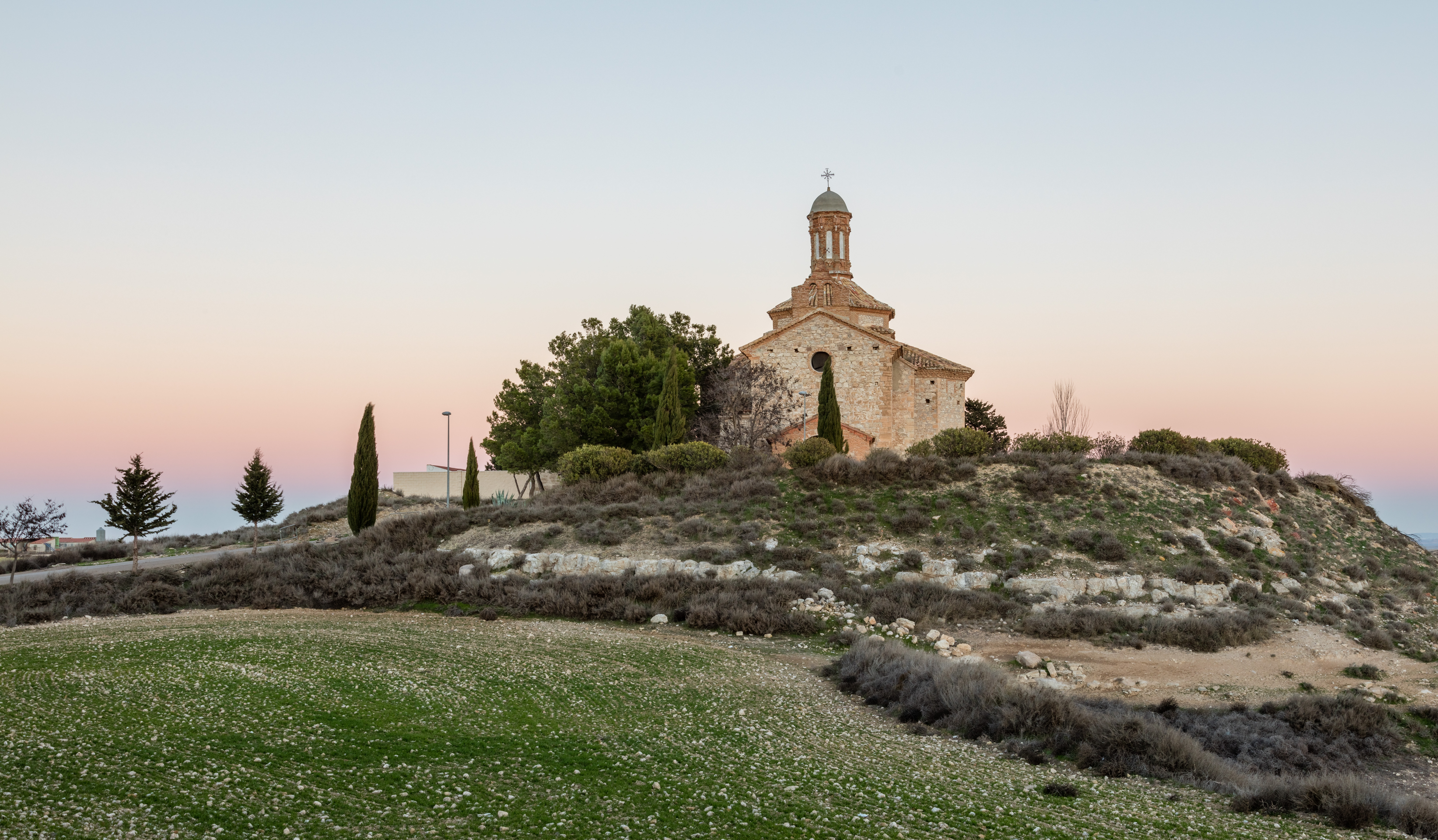 Sunset view of the hermitage of Saint Domingo, Lécera, province of Zaragoza, Spain. The Baroque hermitage was built over a former iberian settlement in the 14th century.